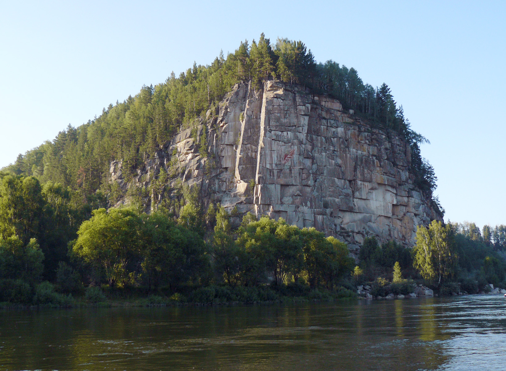 Ikonostas cliff near Udalovka at the right bank of the Biya river with the Lenin's profile carved at the surface.